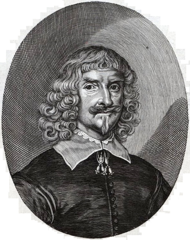 Valentin Heider (1605-1664)